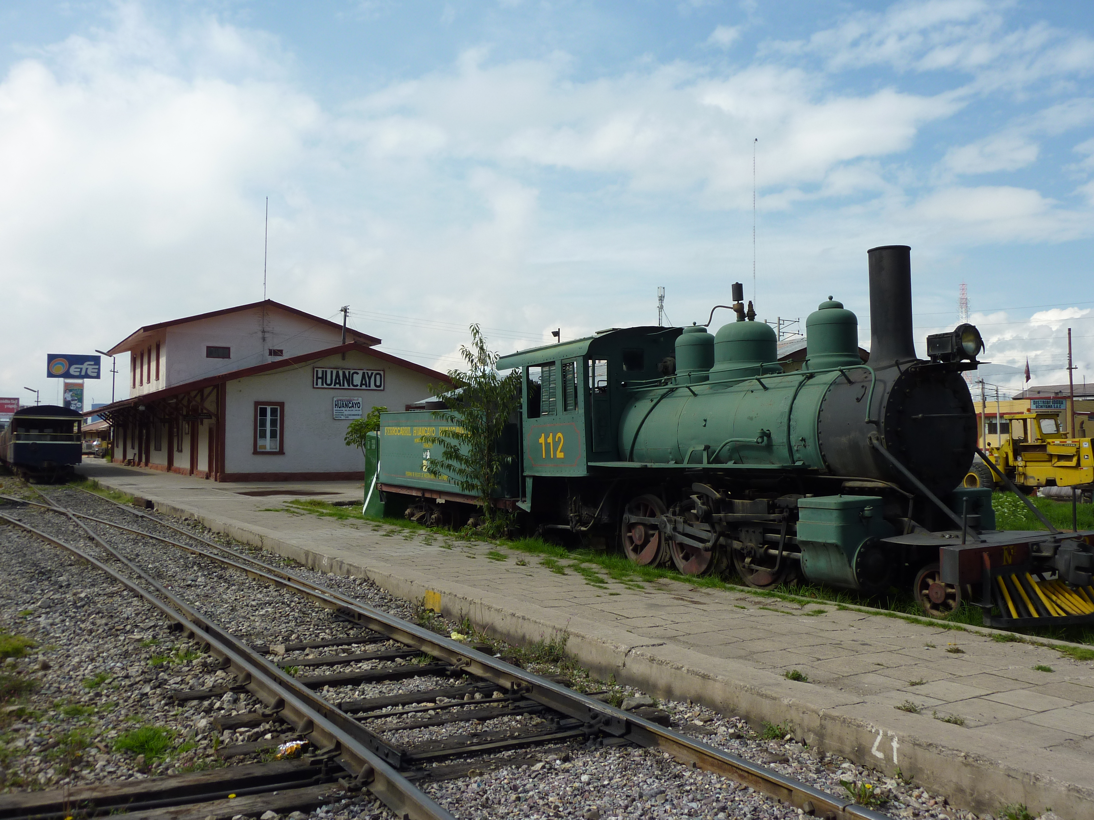 Railway station Huancayo in Peru. 3 ft. narrow gauge engine No. 112 on display was built by Baldwin, USA